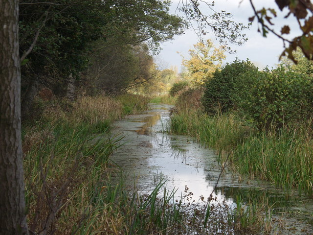 Prees Branch linear nature reserve The canal is managed by the Shropshire Wildlife Trust as a Nature Reserve.